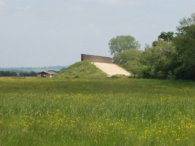 Rifle range butts on Otmoor. A butt is a pile of earth to stop stray bullets, behind the targets on a firing range. View from the part of the Roman Road within the danger area - but available to the public on days with no firing.